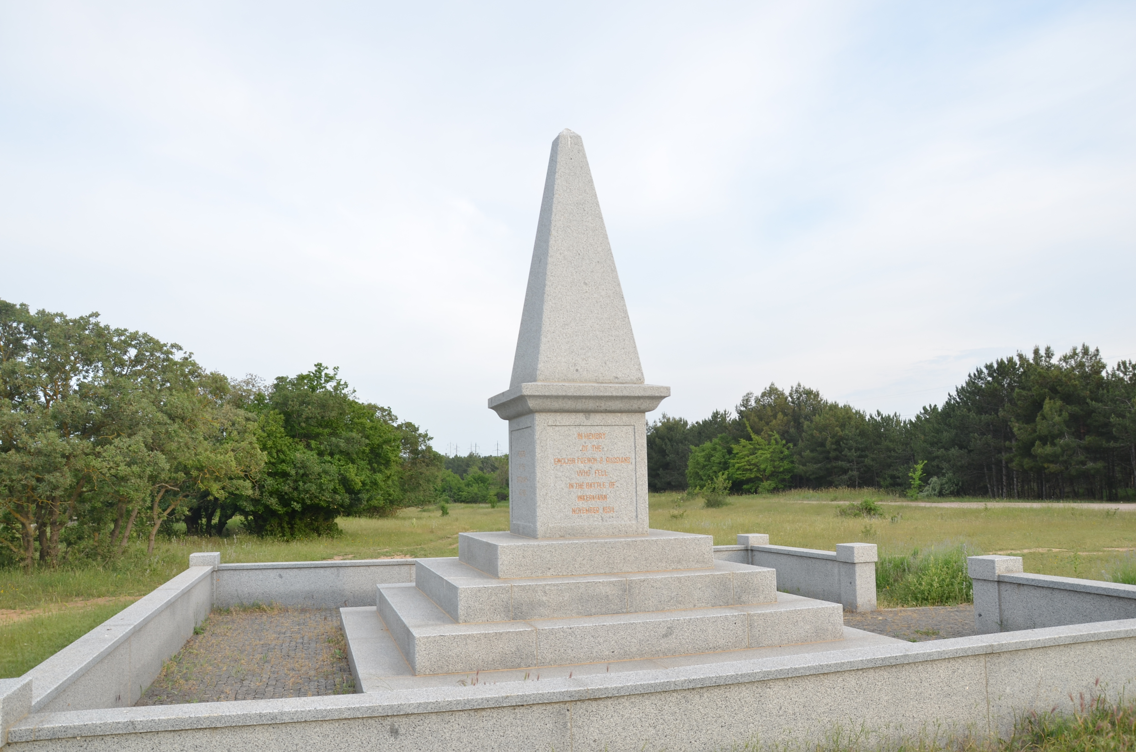 Monument in memory of the fallen in the battle of Inkerman